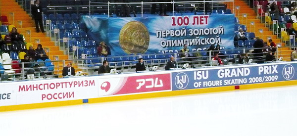 Cup of Russia, held in Khodynka Arena in 2008.